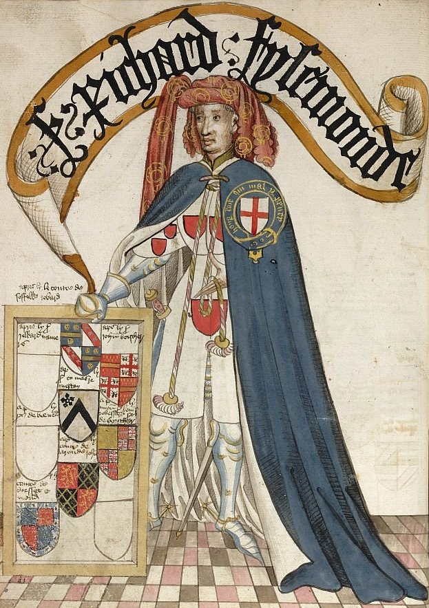 Richard Fitzsimon KG from the Bruges Garter Book, 1430/1440, BL Stowe 594